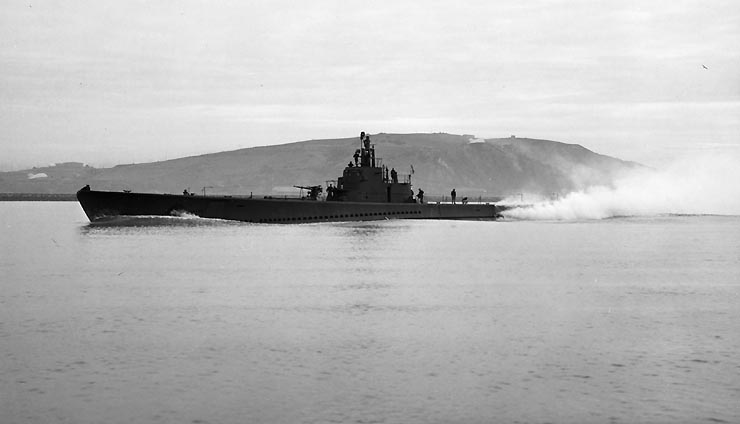 Port side view of the submarine USS Seawolf (SS-197) underway off the Mare Island Navy Yard, California, 7. March 1943 Removed caption read: Photo # NH 99549 USS Seawolf underway off the Mare Island Navy Yard, 7 March 1943 OFFICIAL PHOTOGRAPH [whited-out text] [whited-out text] NAVY YARD MARE ISLAND, CALIF. [image] 1648-43 (SS 197). 450 OFF CENTERLINE. ALTERATIONS CIRCLED ON M.I. PHOTOS NO. 1499-43 TO 1500-43 INC. MARE ISLAND, CAL. MARCH 7, 1943.